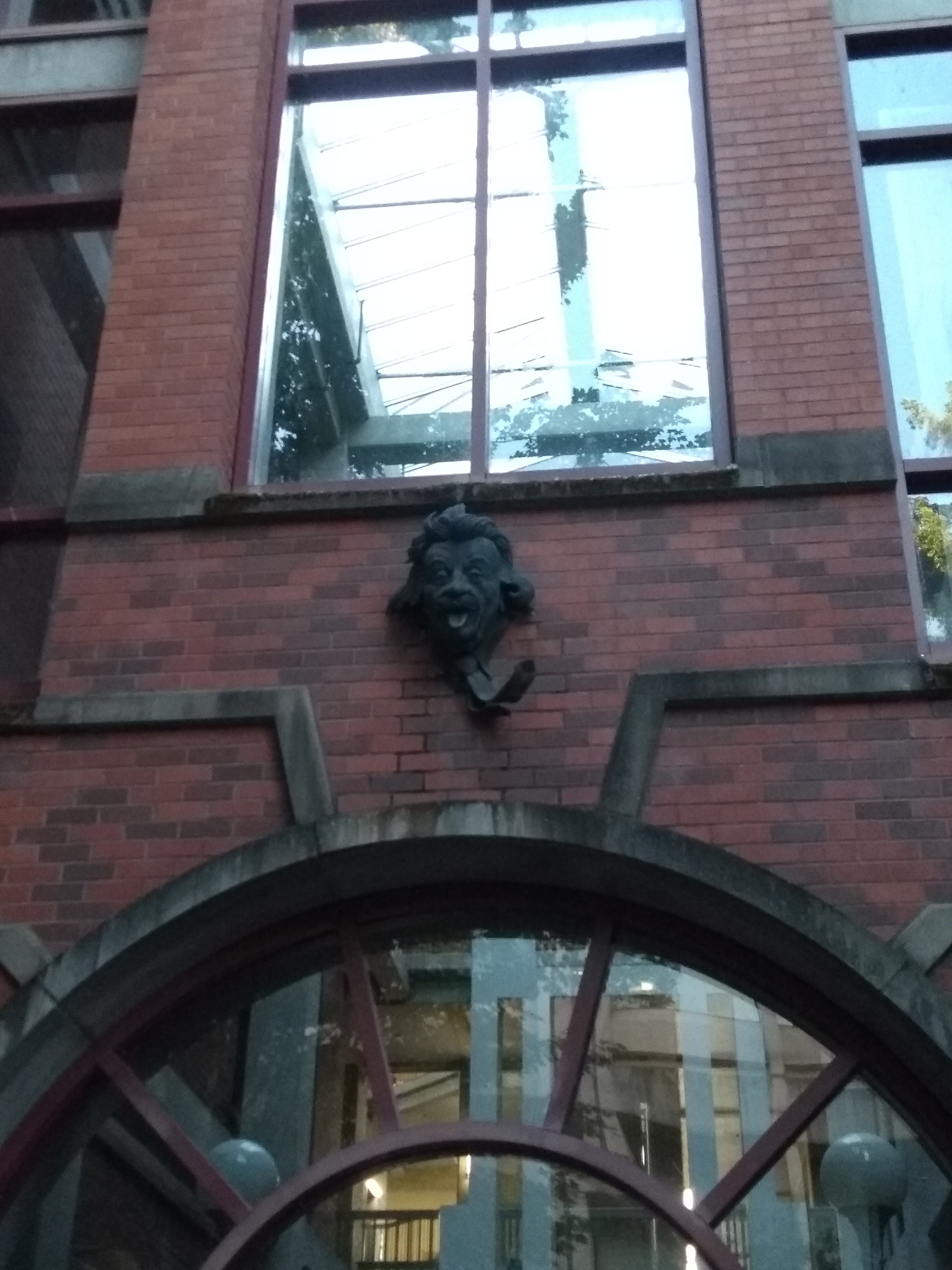 sculpture